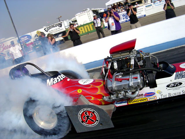 Mendy Fry performs a burnout in the Mastercam AA/Fuel Dragster